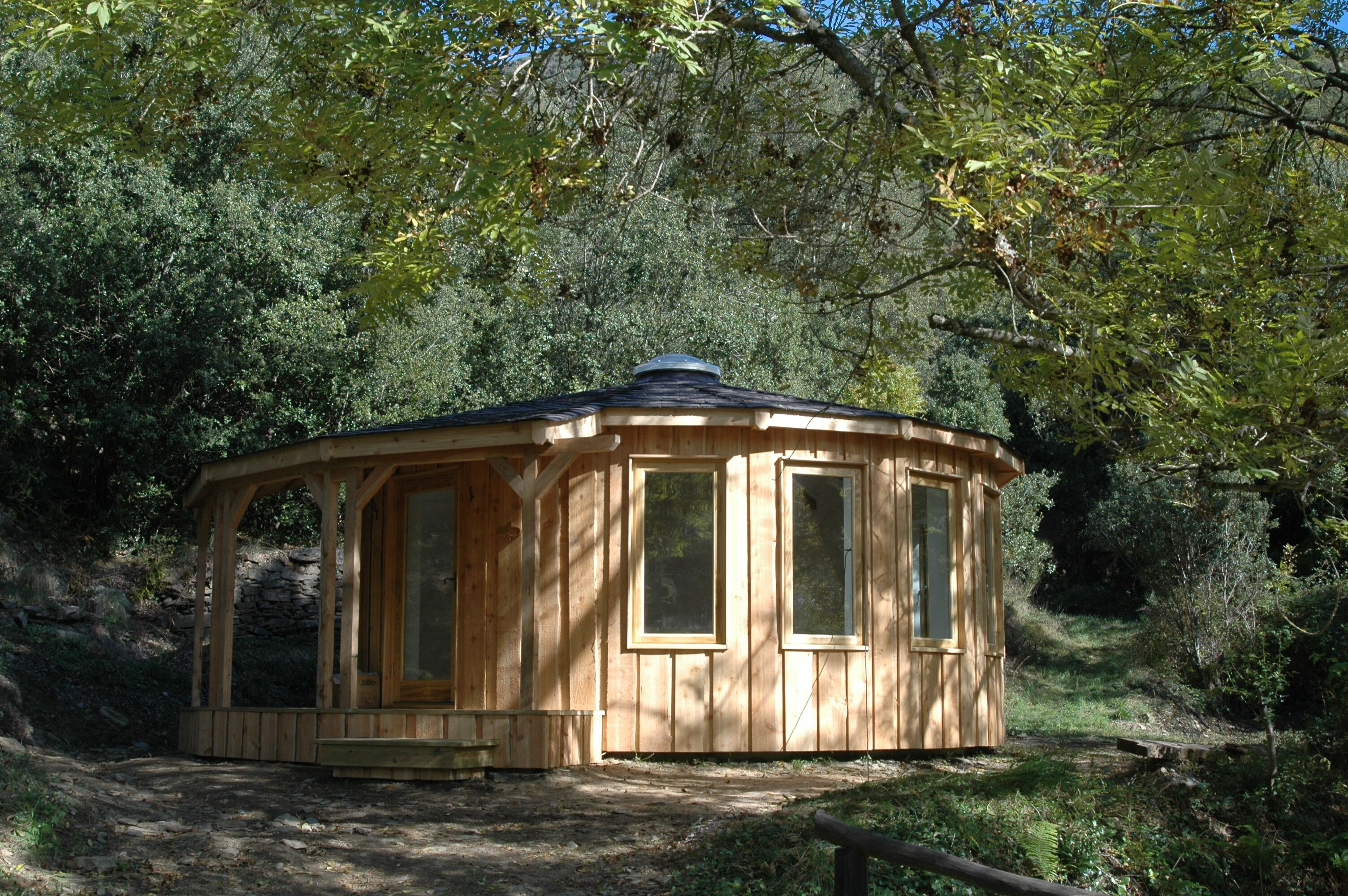 A modern version of the Roundhouse. Designed and constructed by a firm who focus exclusively on reviving the 'Roundhouse' and bringing it back to modern society.